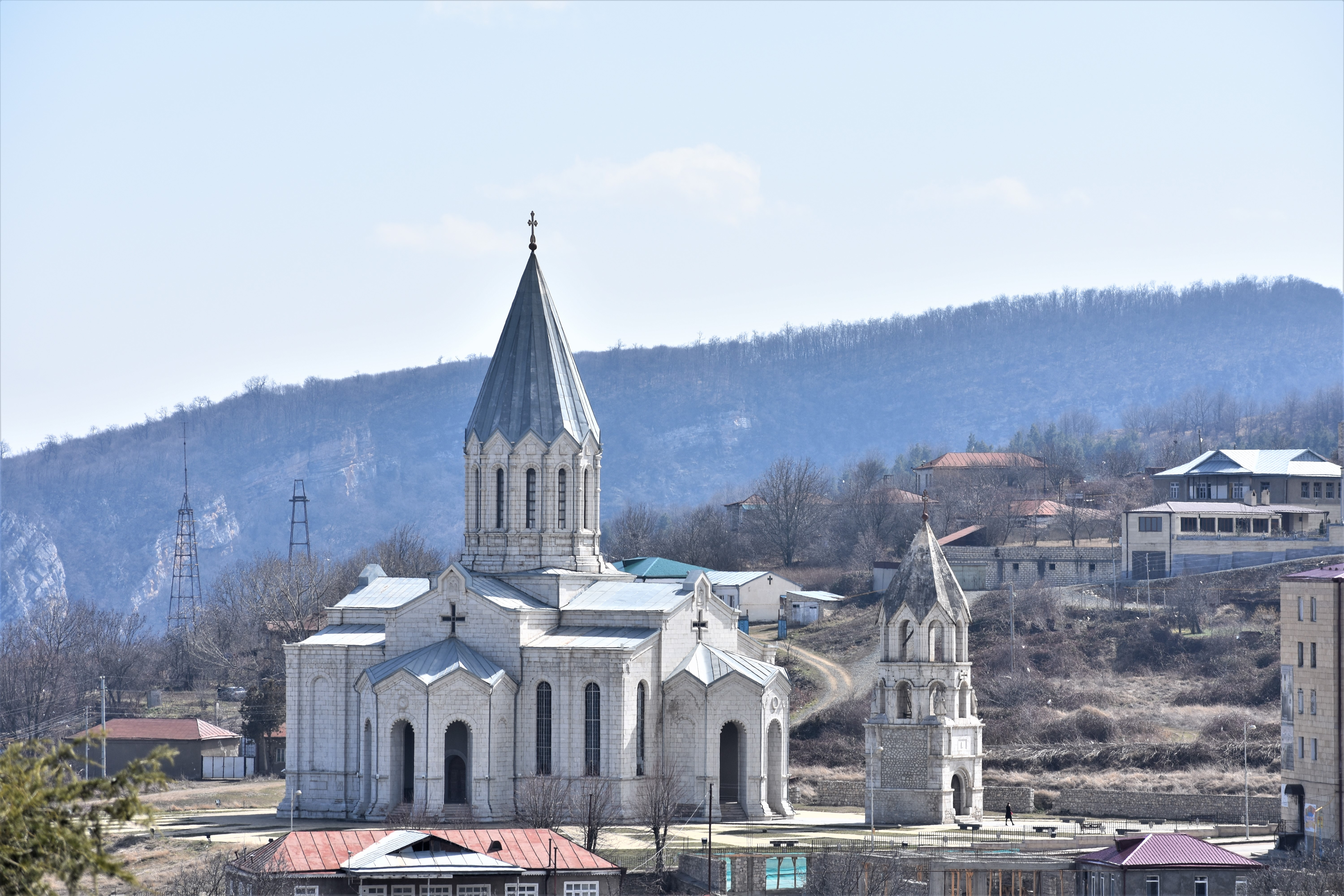 Ghazanchetsots Cathedral as seen from Kanach Zham